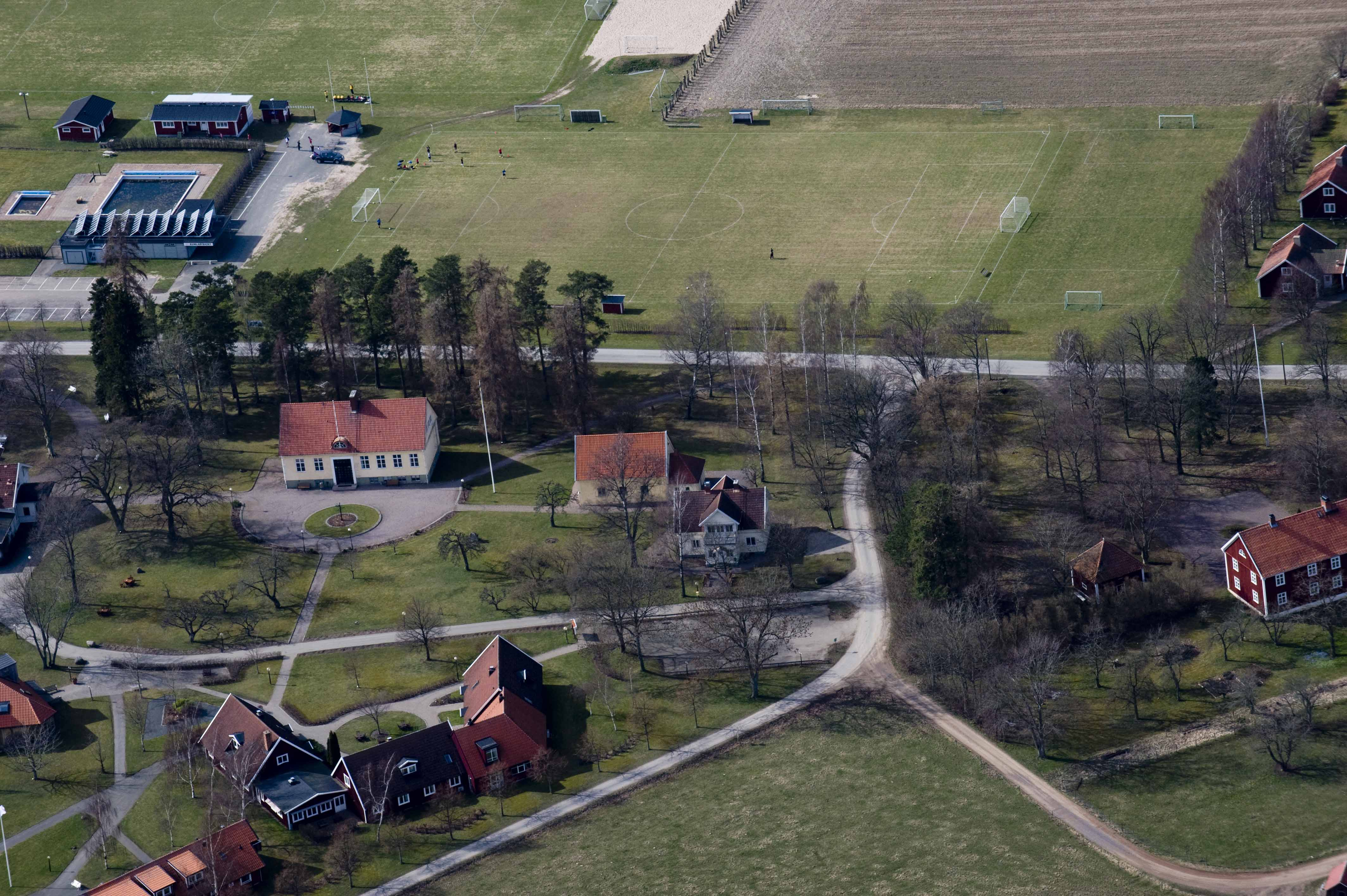 The Old Brahe school from the air